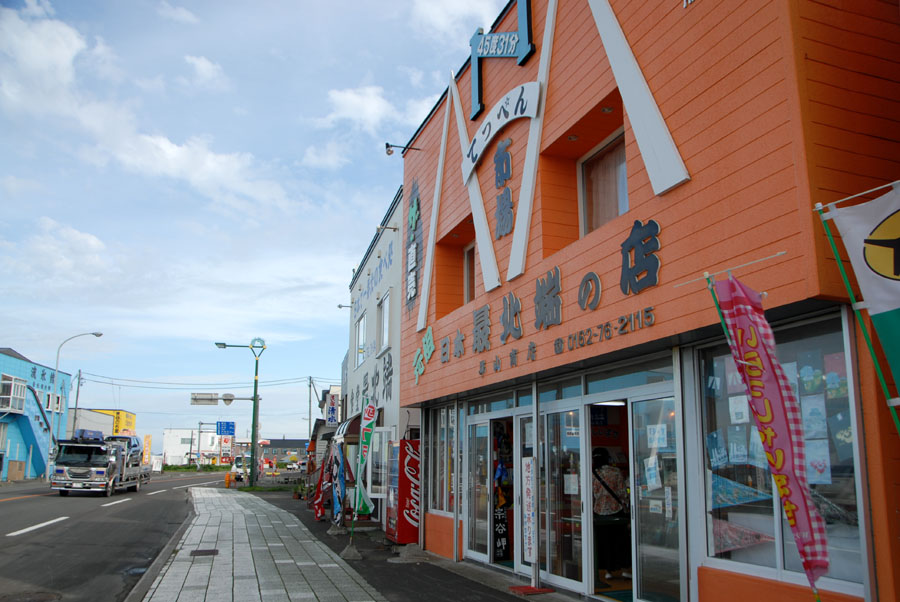 宗谷岬地區許多商店與設施都愛以「最北」作為命名或訴求 Many stores and restaurants around Cape Soya use "the most northern..." as part of their names to emphesize the geographical importantness of this area.